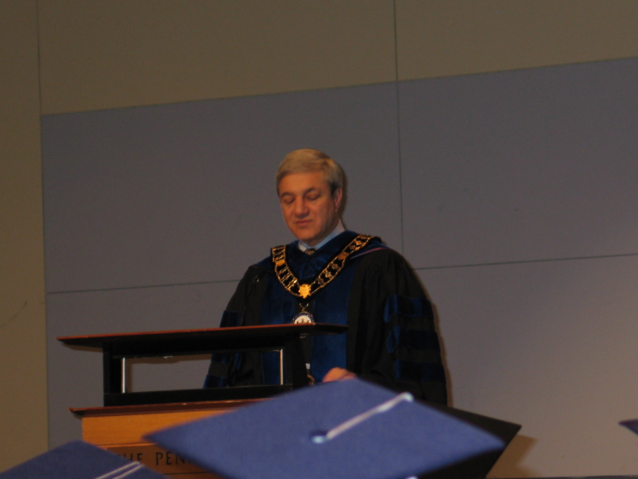 Graham Spanier, speaking at the Schreyer Honors College medals ceremony on December 16, 2005. Taken by Christopher Sokolowski.